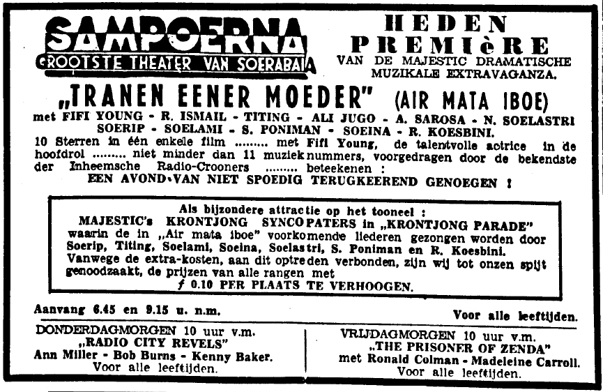 Newspaper advertisement for Air Mata Iboe, an Indonesian film directed by Njoo Cheong Seng.